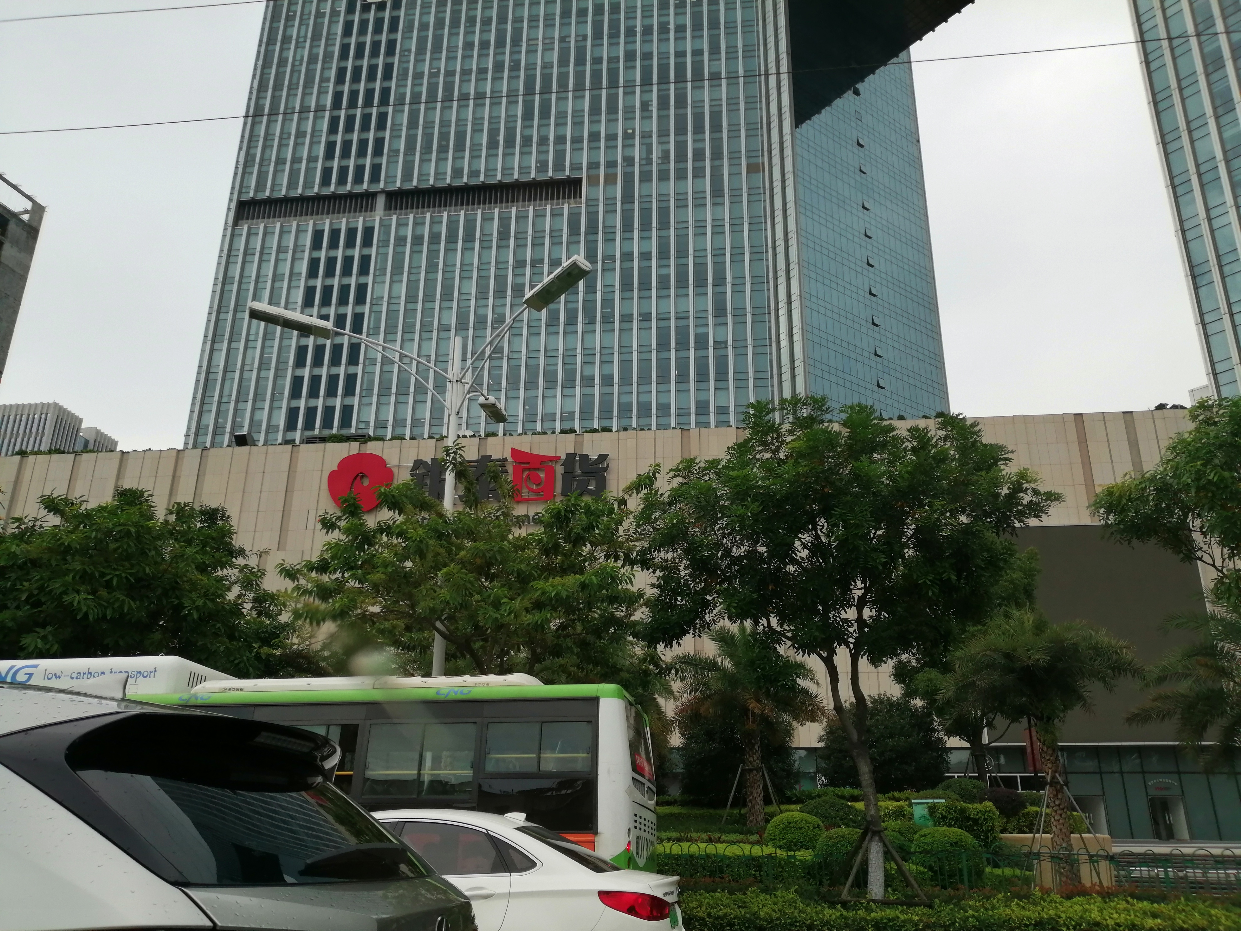 A Intime Department Store located in Xiamen 中文（中国大陆）: 位于厦门的银泰百货门店